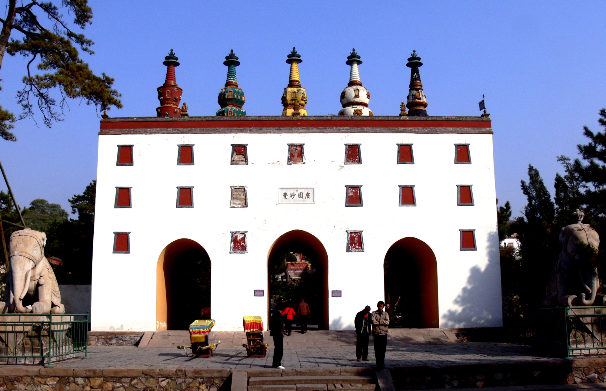 Five pagoda gate at Putuo Zongcheng Temple, Chengde